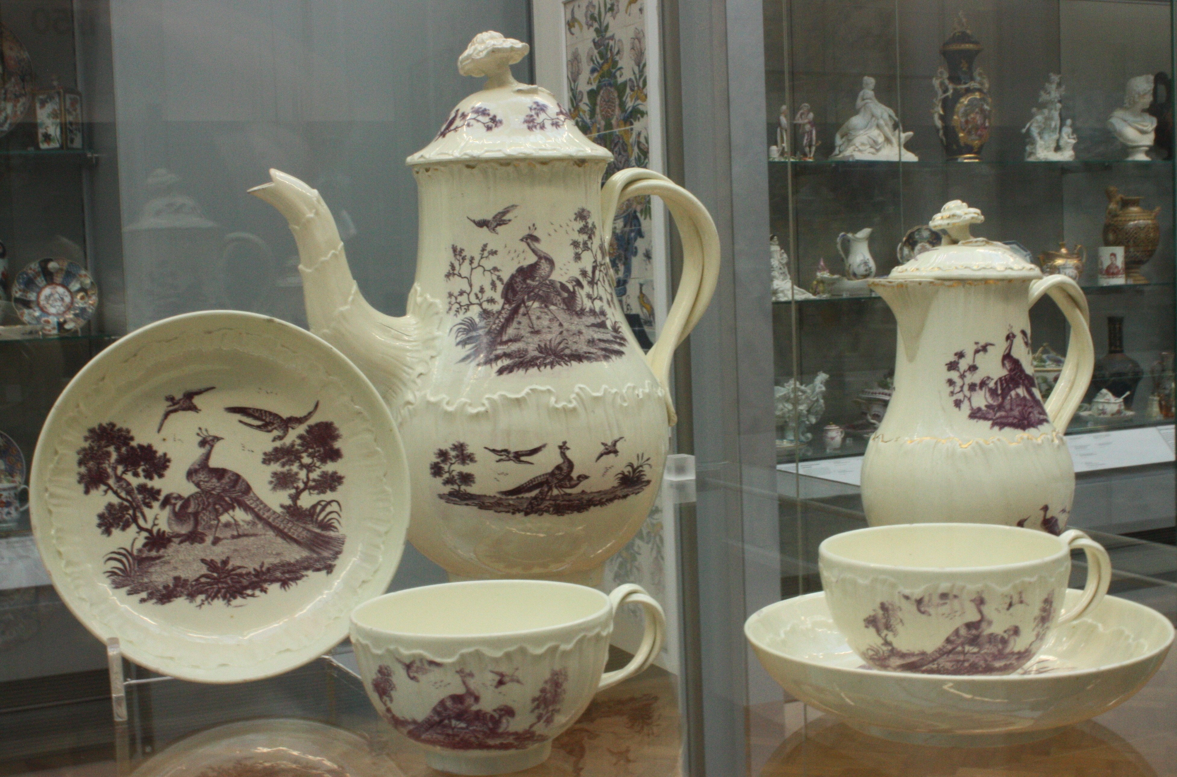 Tea and coffee service England, Staffordshire, about 1775 Two of England\'s contributions to ceramic history were creamware and transfer-printing, which revolutionised ceramic decoration worldwide. Creamware was cheap, durable and well-suited to dinner and tea services. It was hugely popular between 1765 and 1820. Transfer-printing, perfected around 1750, enabled manufacturers to achieve high-quality decoration at a low cost. Made at Josiah Wedgwood\'s factory; transfer-printed in Liverpool by Guy Green (died 1799) Creamware, transfer printed in enamel Given by Lady Charlotte Shreiber Collection ID: 414:1157/B&C-1885 This photo was taken as part of Britain Loves Wikipedia in February 2010 by Valerie McGlinchey.